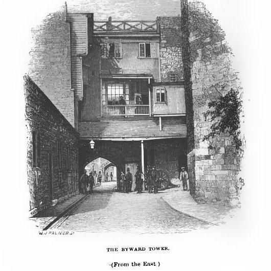 Tower of London: the Byward Tower in 1871. From the book "Sketches of the Tower of London, as a fortress, a prison, and a palace, and a guide to the armories", published by the Tower of London in 1871.